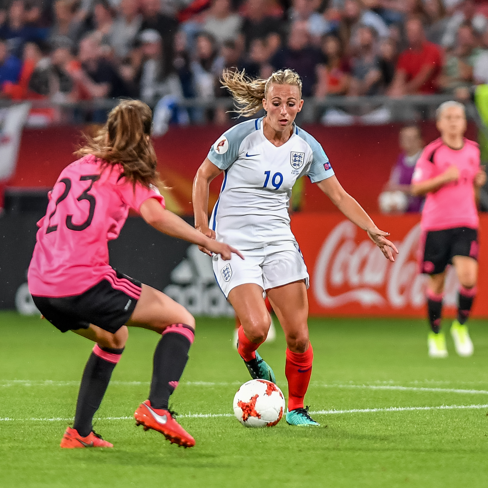 Utrecht, Netherlands, sports, soccer, UEFA Women's Euro 2017 - England vs Scotland. Image shows